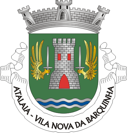 Crest of Atalaia parish, Vila Nova da Barquinha municipality (Portugal)